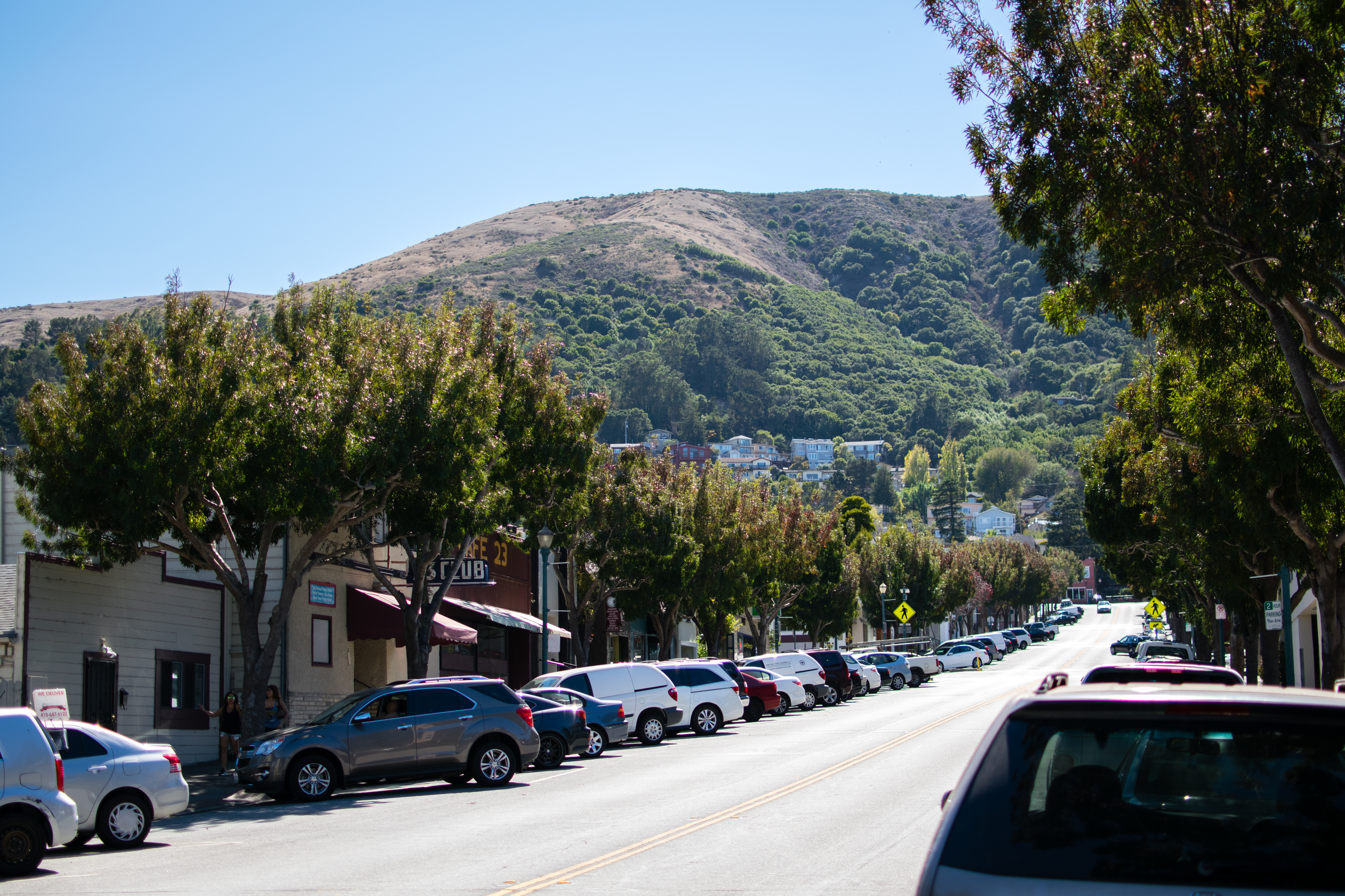 The main street in downtown Brisbane, CA.